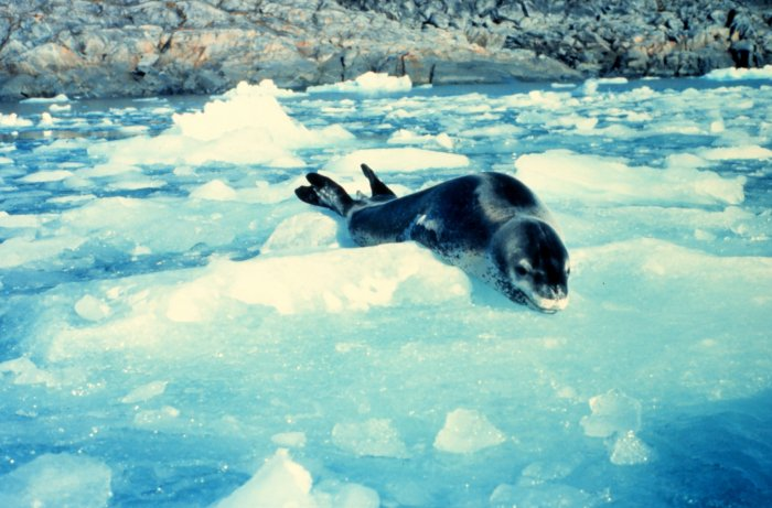 Leopard Seal